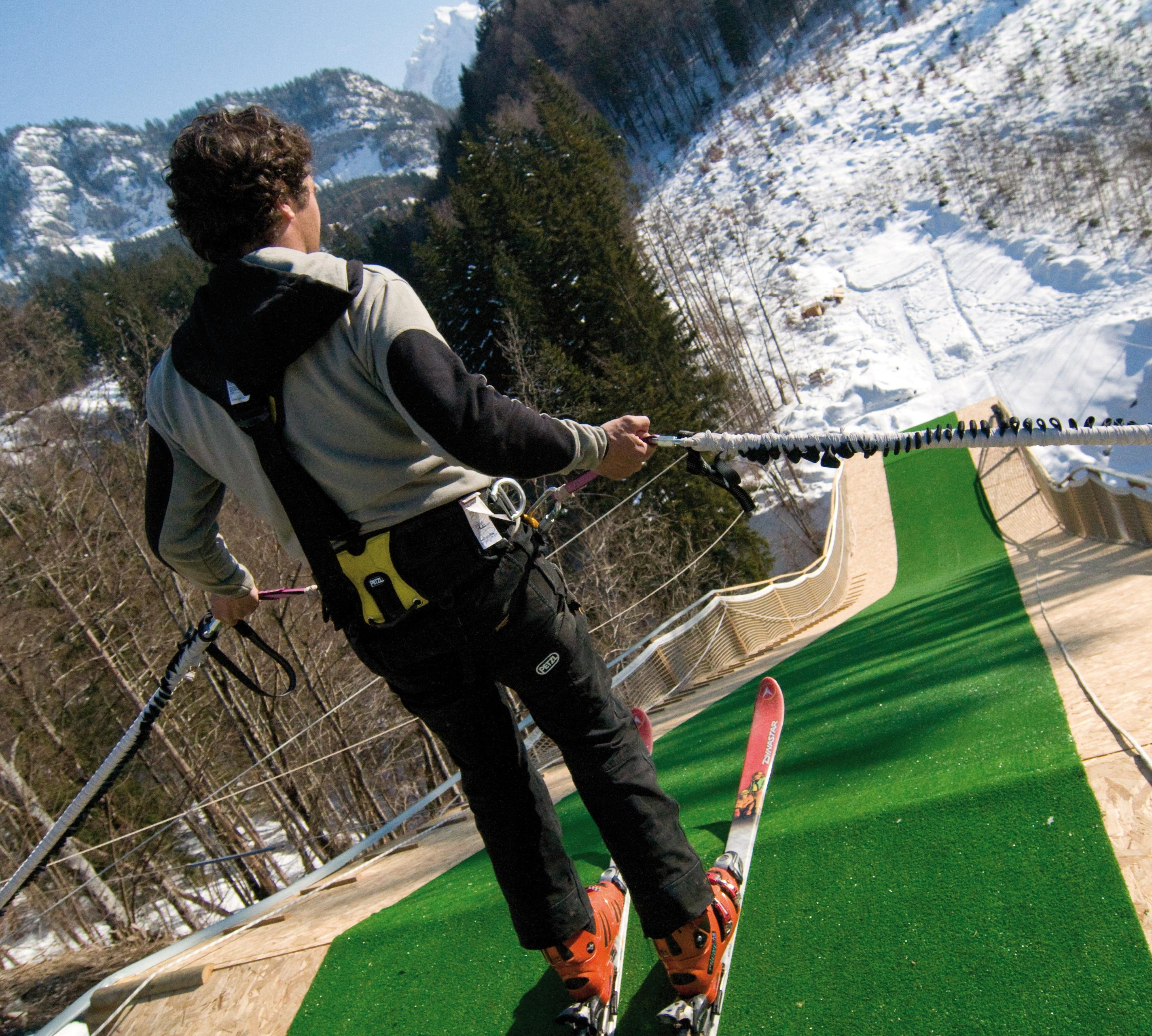 first ski bungee jumping - St Jean de Sixt (France)